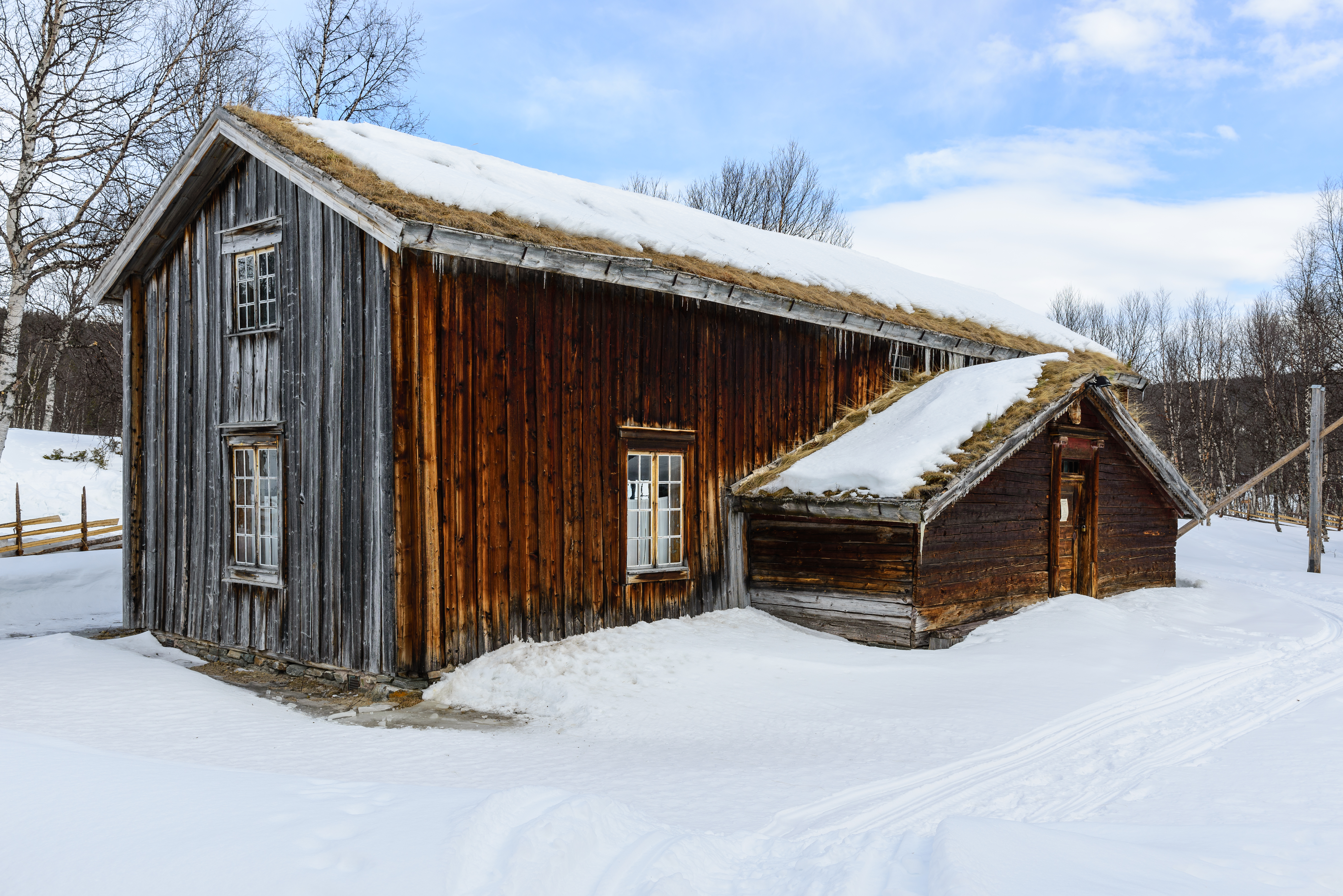 Gammelgården, the oldest buildings in Ljungdalen, a small village in Berg , Härjedalen, Sweden. The house was probably built in the early 1700s, and is today part of a local heritage centre.